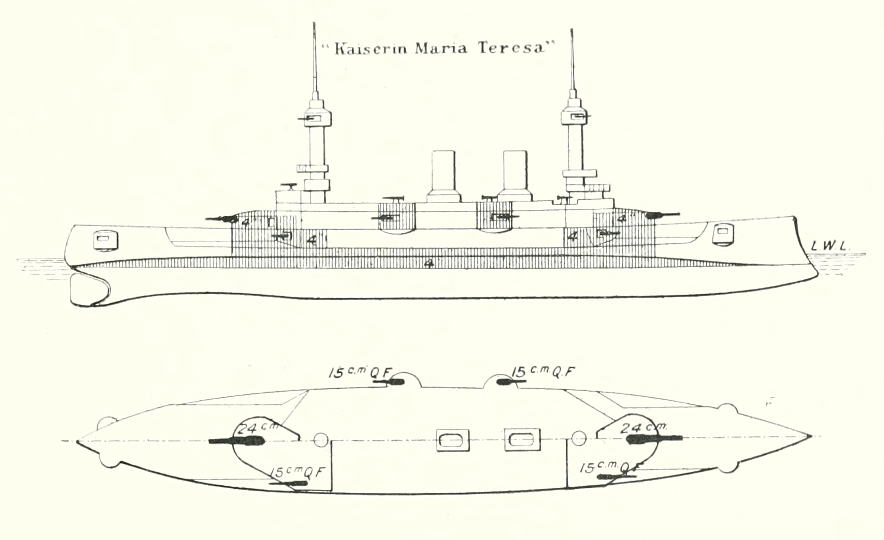 Sketch of the Austro-Hungarian armoured cruiser Kaiserin und Königin Maria Theresia.